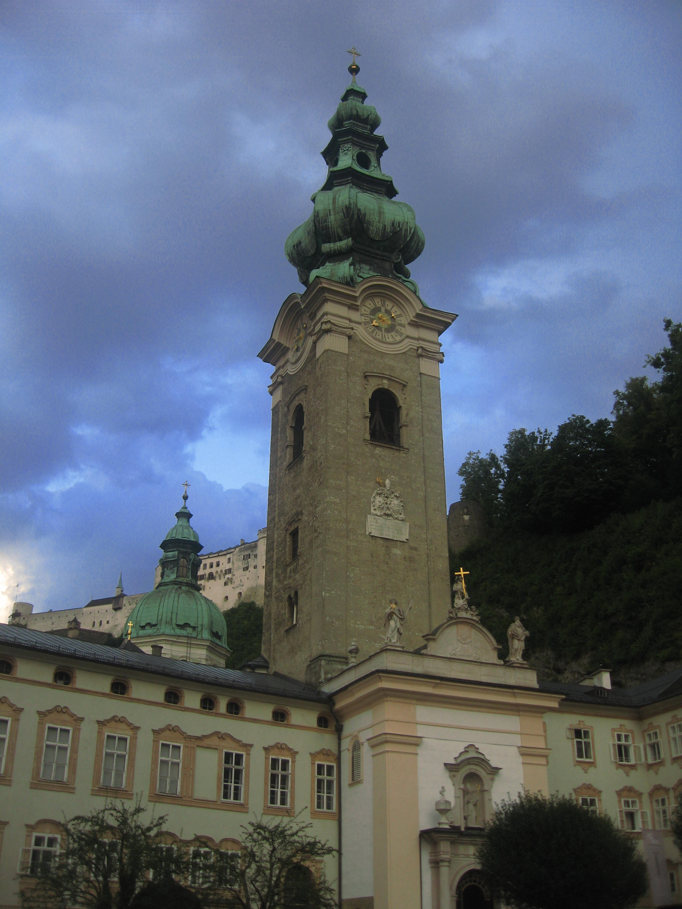 Benedictin-Archabbey Saint Peter in Salzburg, Austria